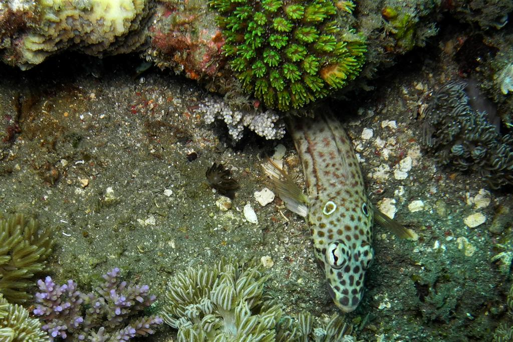 Latticed sandperch (Parapercis clathrata) at Bubble Beach, Lauhata, East Timor